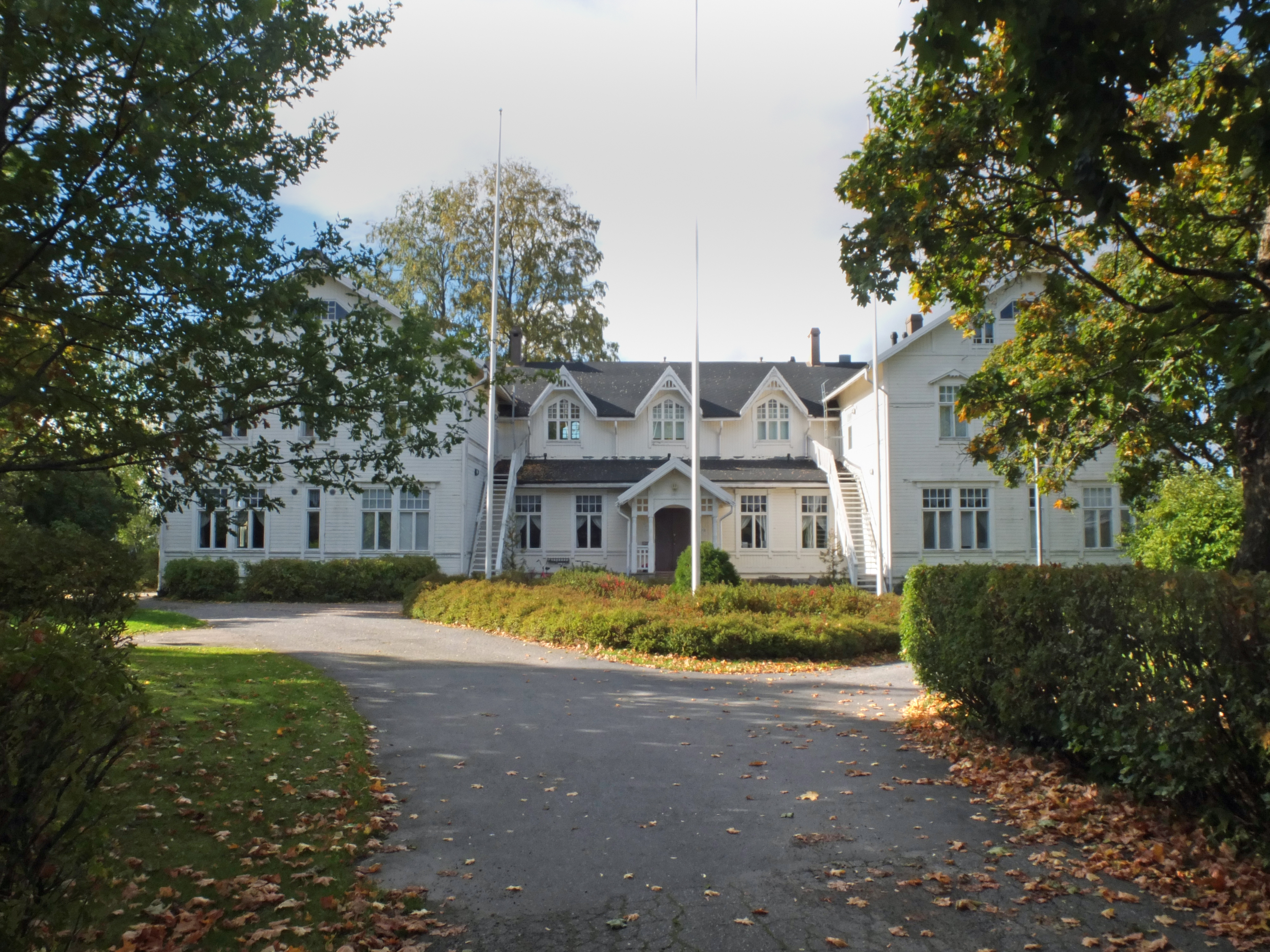 The main building of VSKO (Varsinais-Suomen kansanopisto), a boarding school for young adults (”folk high school”) in Paimio, Finland.